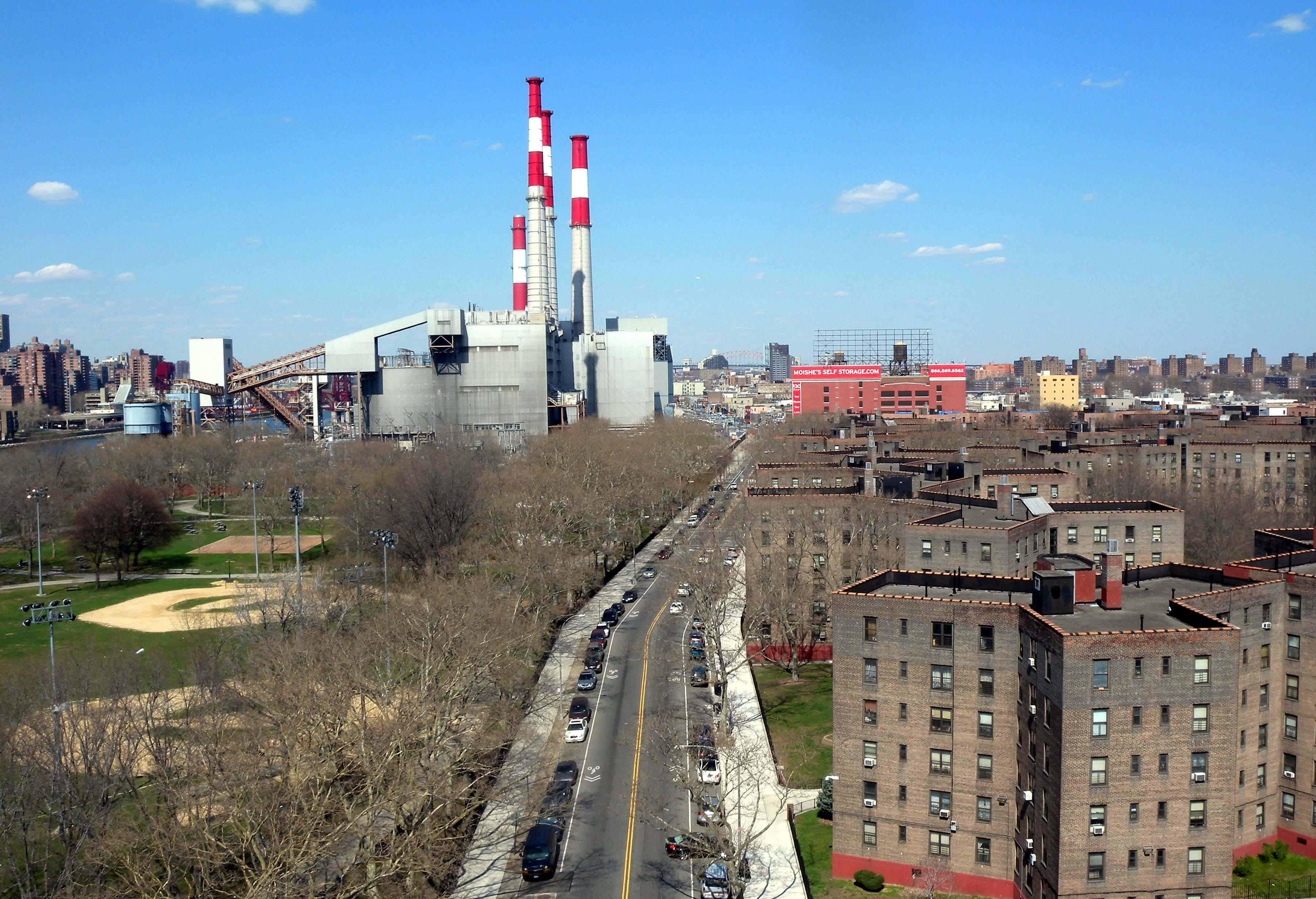 looking north up Vernon Blvd from Queensboro Bridge towards Queensbridge Park, Ravenswood power plant, and Queensbridge Houses of NYCHA on a sunny early afternoon.